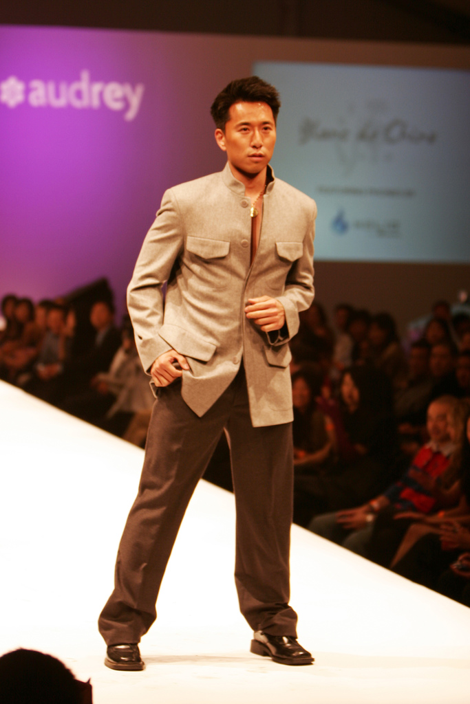 James Kyson Lee at Audrey Magazine Fashion Fusion in 2007.